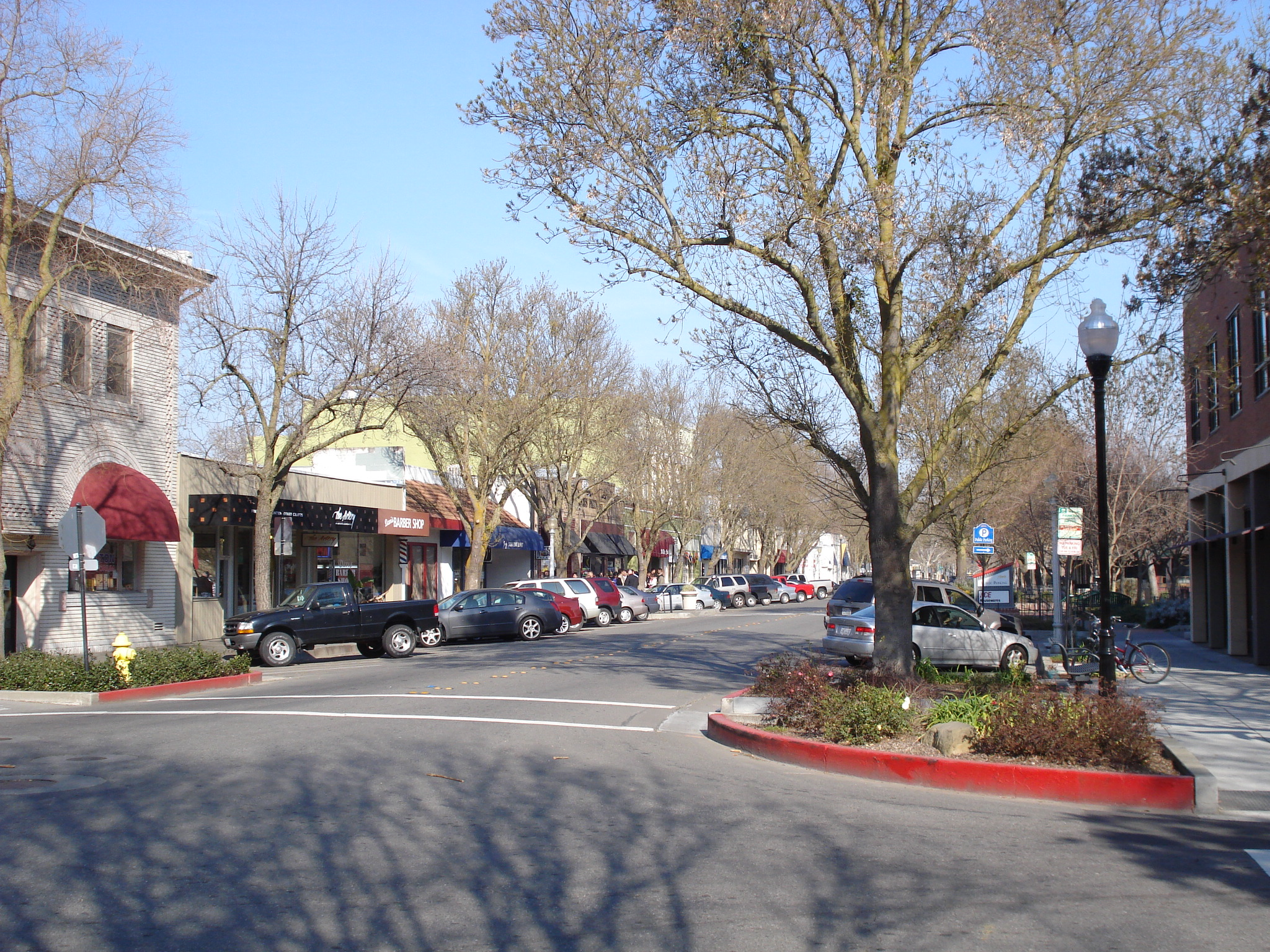 G Street, Davis, 10 AM